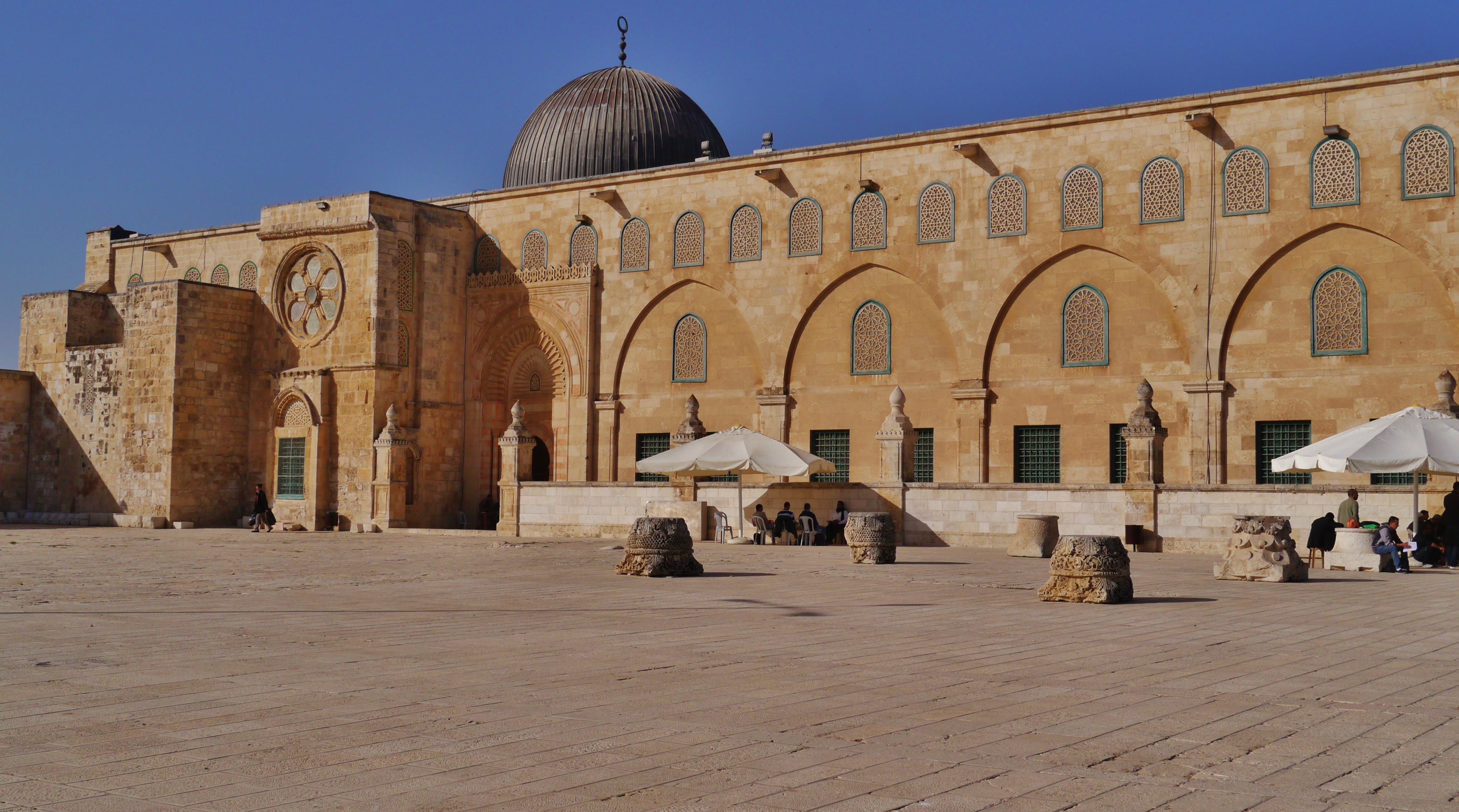 Al-Aqsa Mosque, Jerusalem, Israel